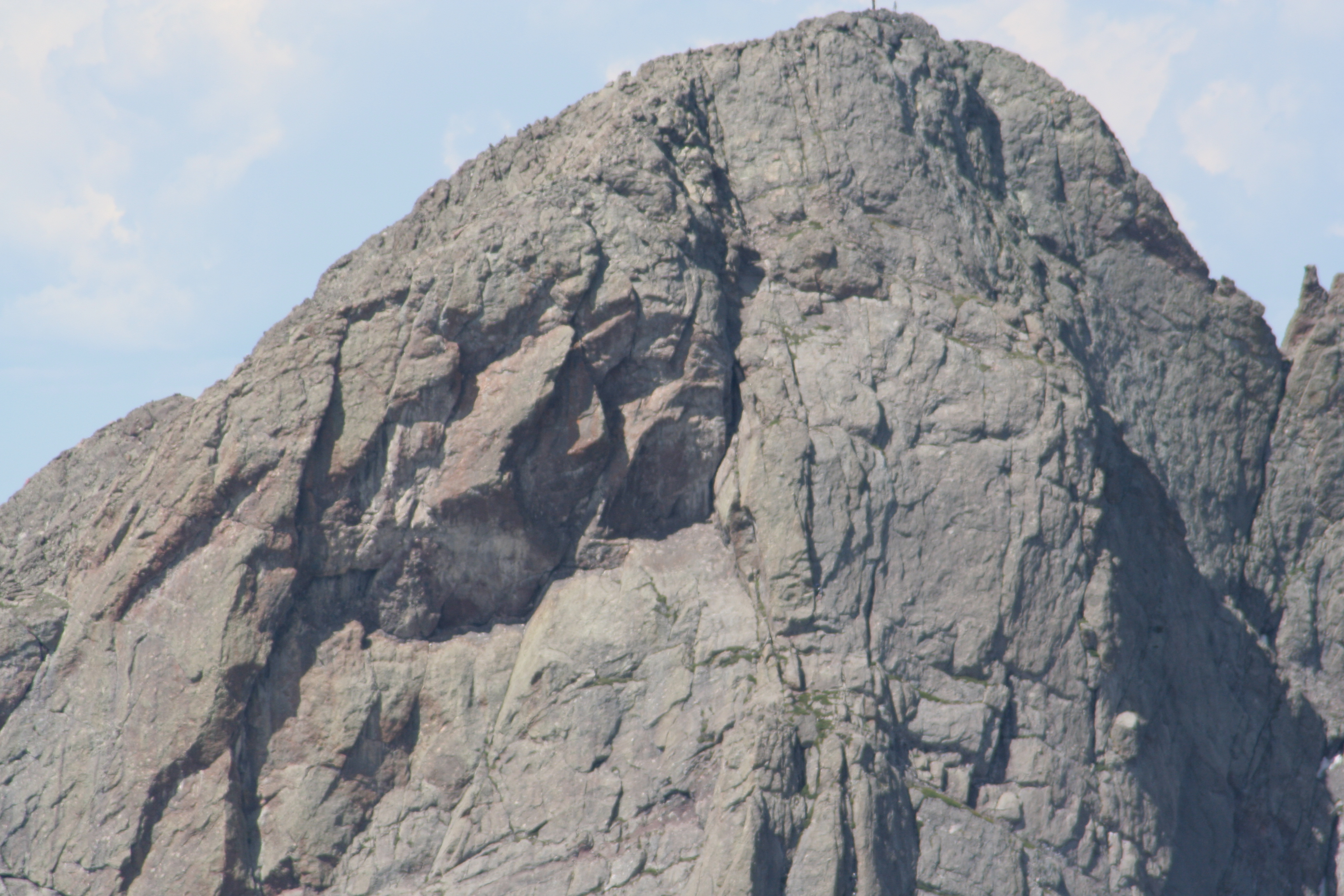 I think this is the crestone peak. Taken from Humboldt Peak